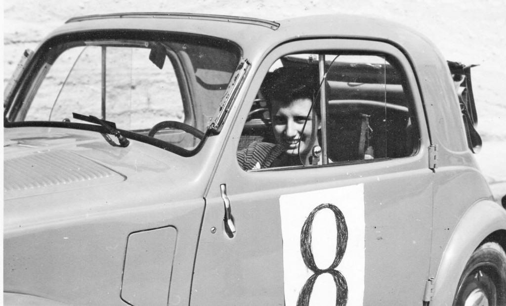 Entry #8 (and WINNER) at the "Salerno – Cava de' Tirreni" hillclimb south of Naples in June 1948, was Maria Teresa de Filippis in a little Fiat 500. One of her first races.[1]